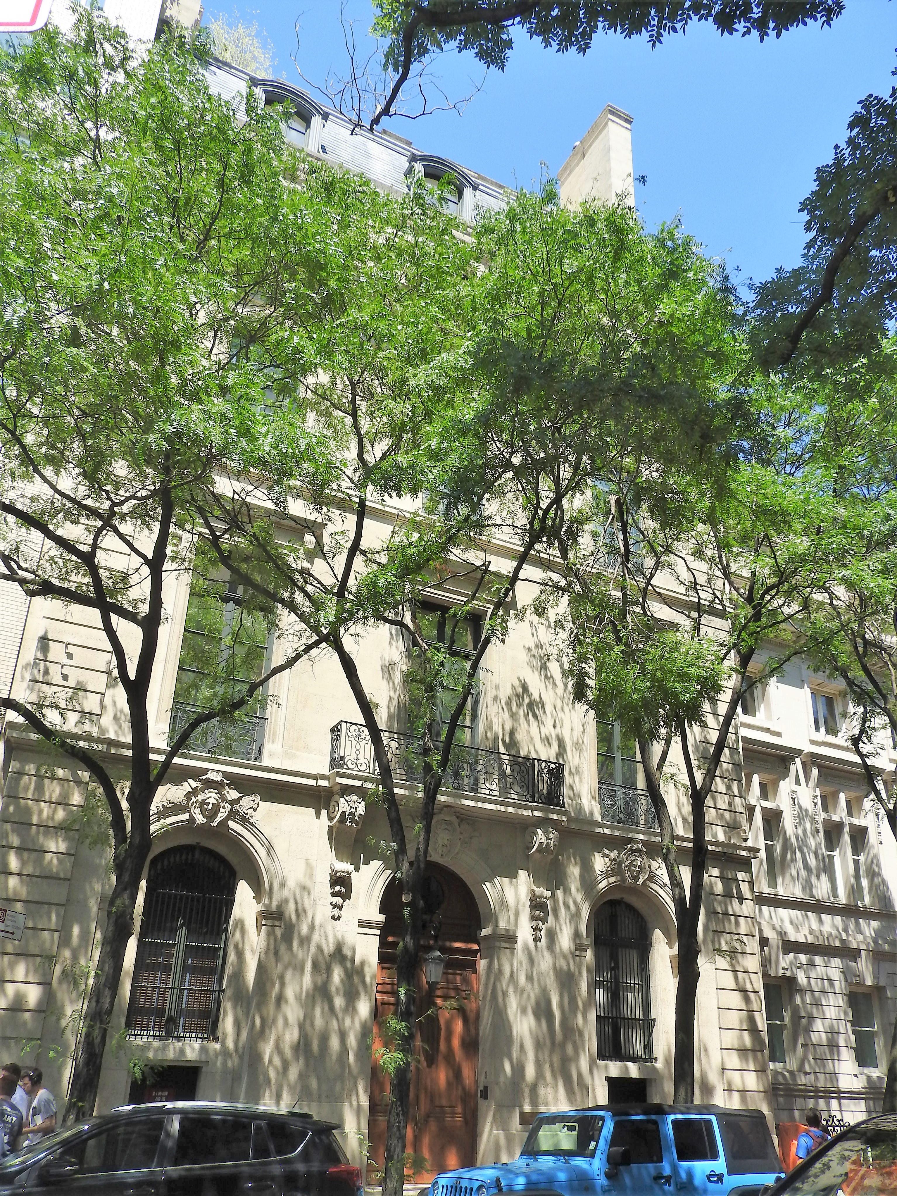 Looking northeast across 71st Street